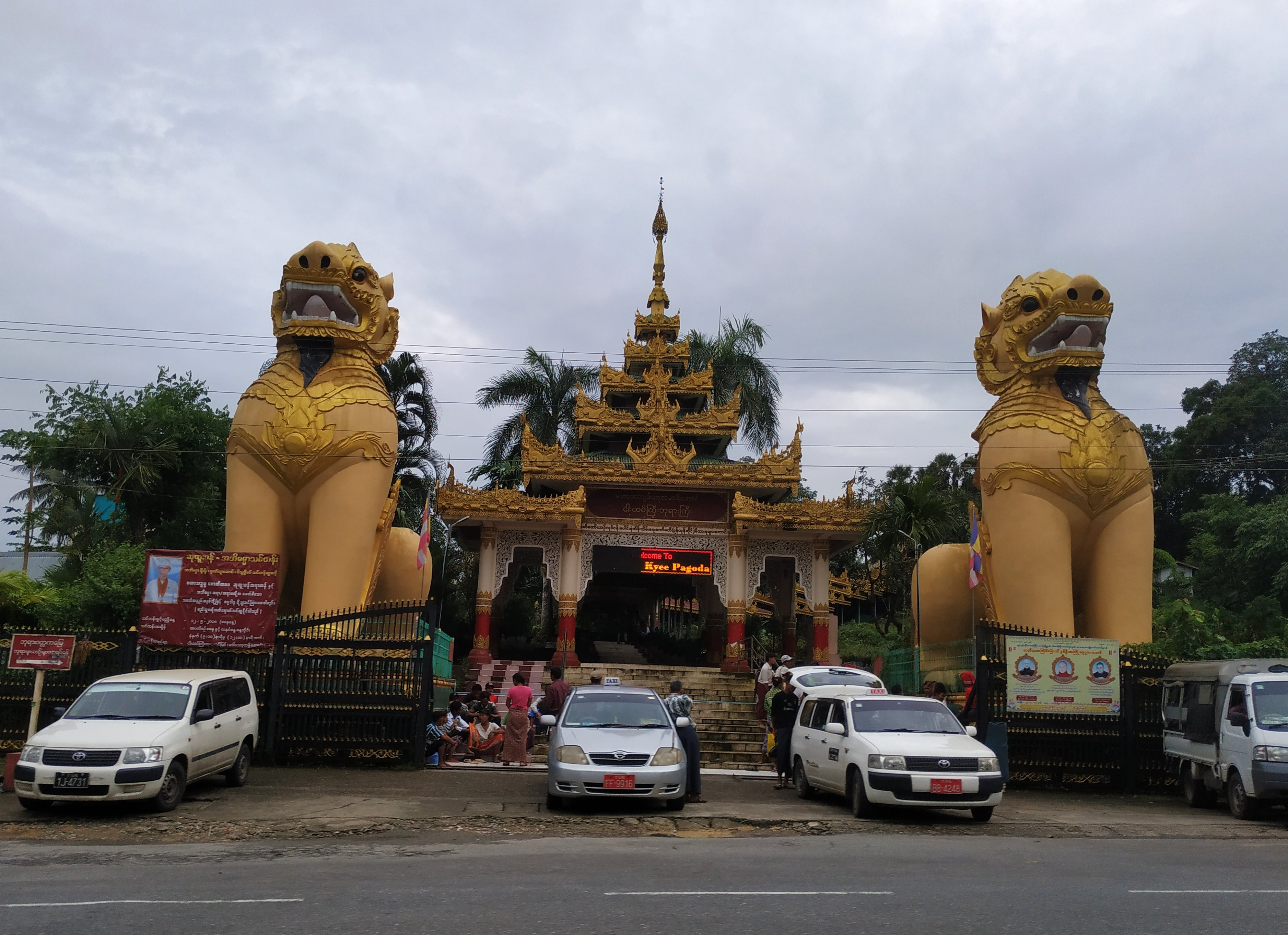 Ngar Htat Gyi Pagoda, Shwegondaing Road, Bahan Township, Yangon မြန်မာဘာသာ: ငါးထပ်ကြီးဘုရား၊ ရွှေဂုံတိုင်လမ်း၊ ဗဟန်းမြို့နယ်၊ ရန်ကုန်